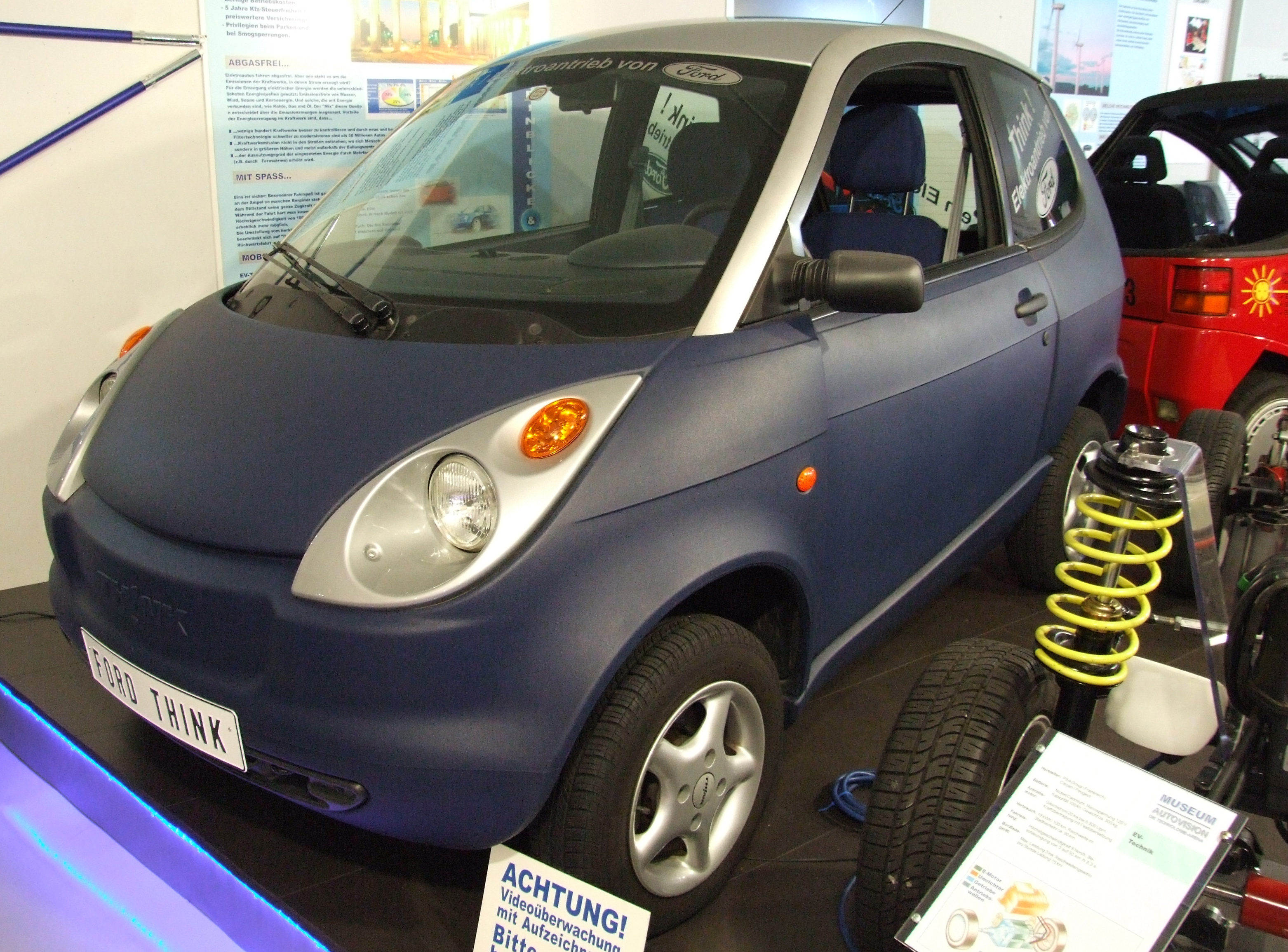 Ford Think at Museum Autovision, Altlußheim, Germany